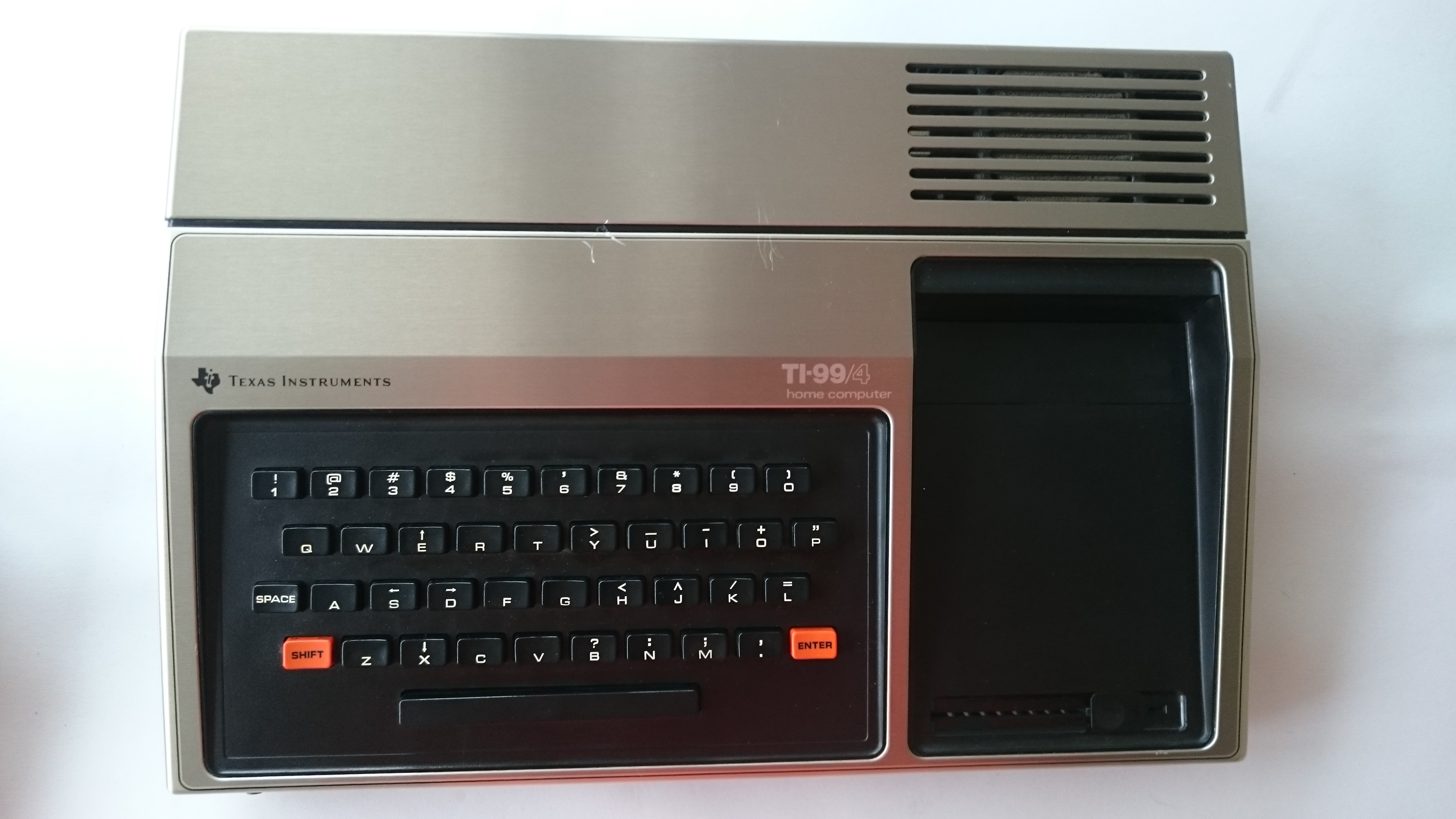 Photo of a Texas Instruments TI-99/4 (16 bit microcomputer from 1979)